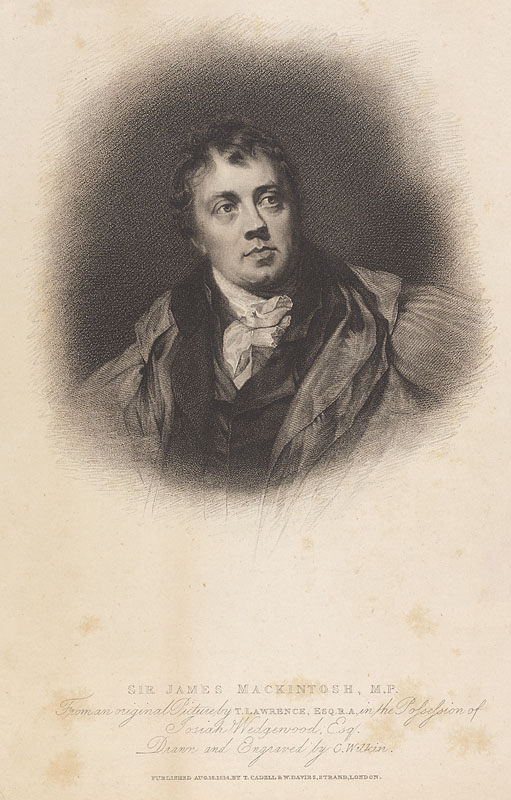 Sir James Mackintosh (1765-1832)